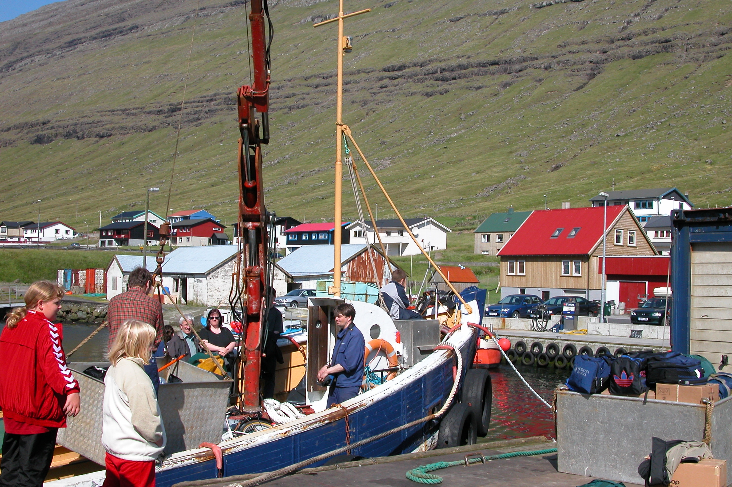 Hvannasund on Viðoy, Faroe Islands.